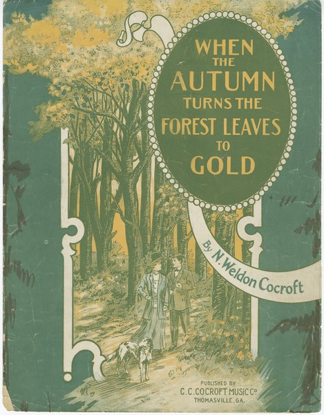 A sheet music cover illustration, title "When the Autumn Turns the Forest Leaves to Gold" by N. Weldon Cocroft; illustration of a white couple standing in the forest with a dog, in green and gold colors.